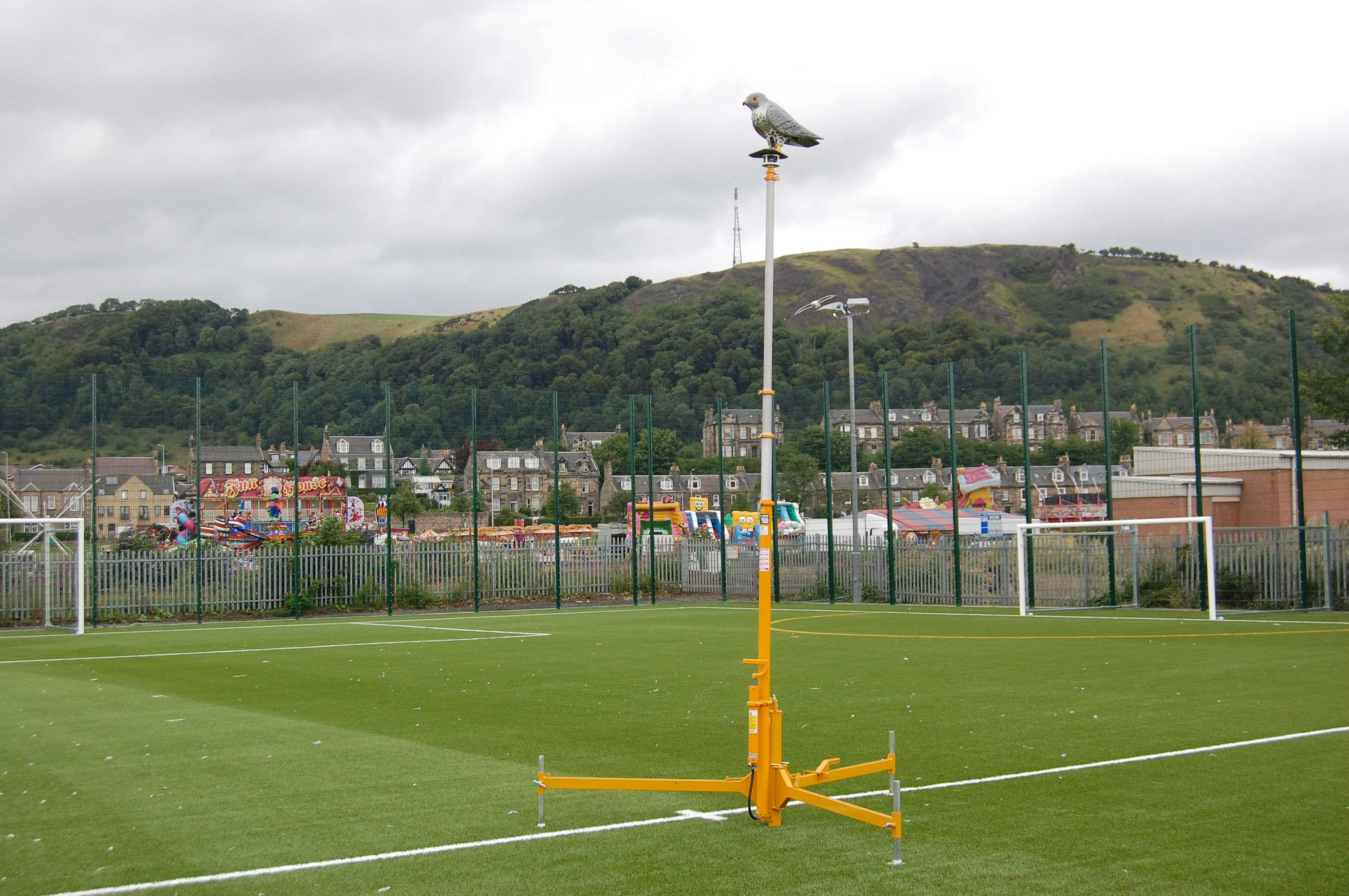 Robop's R:Falcon Outlander System.